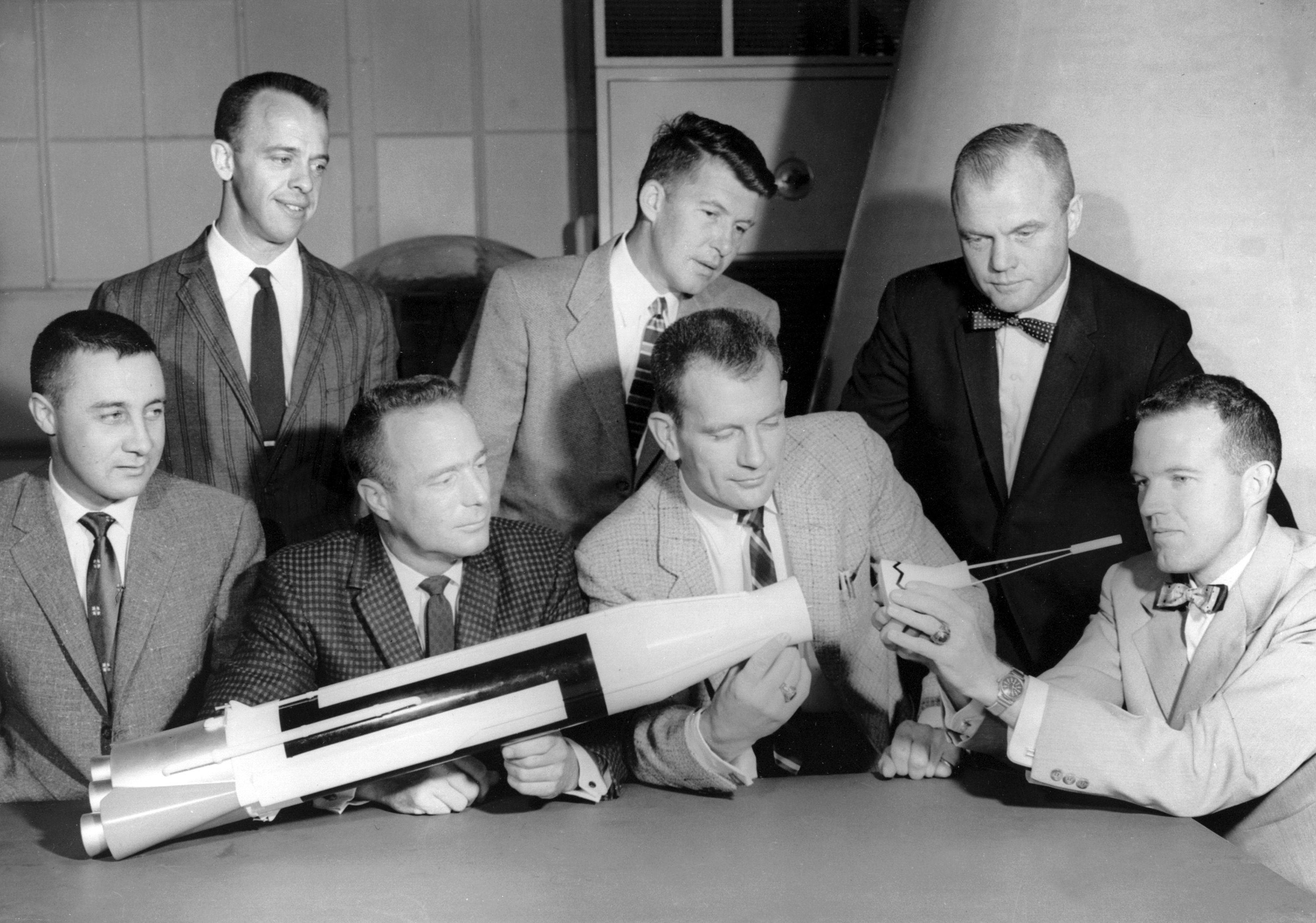 The "Mercury Seven" astronauts pose with an Atlas model on July 12, 1962. Front row, left to right: Gus Grissom, Scott Carpenter, Deke Slayton and Gordon Cooper. Back row: Alan Shepard, Wally Schirra and John Glenn.